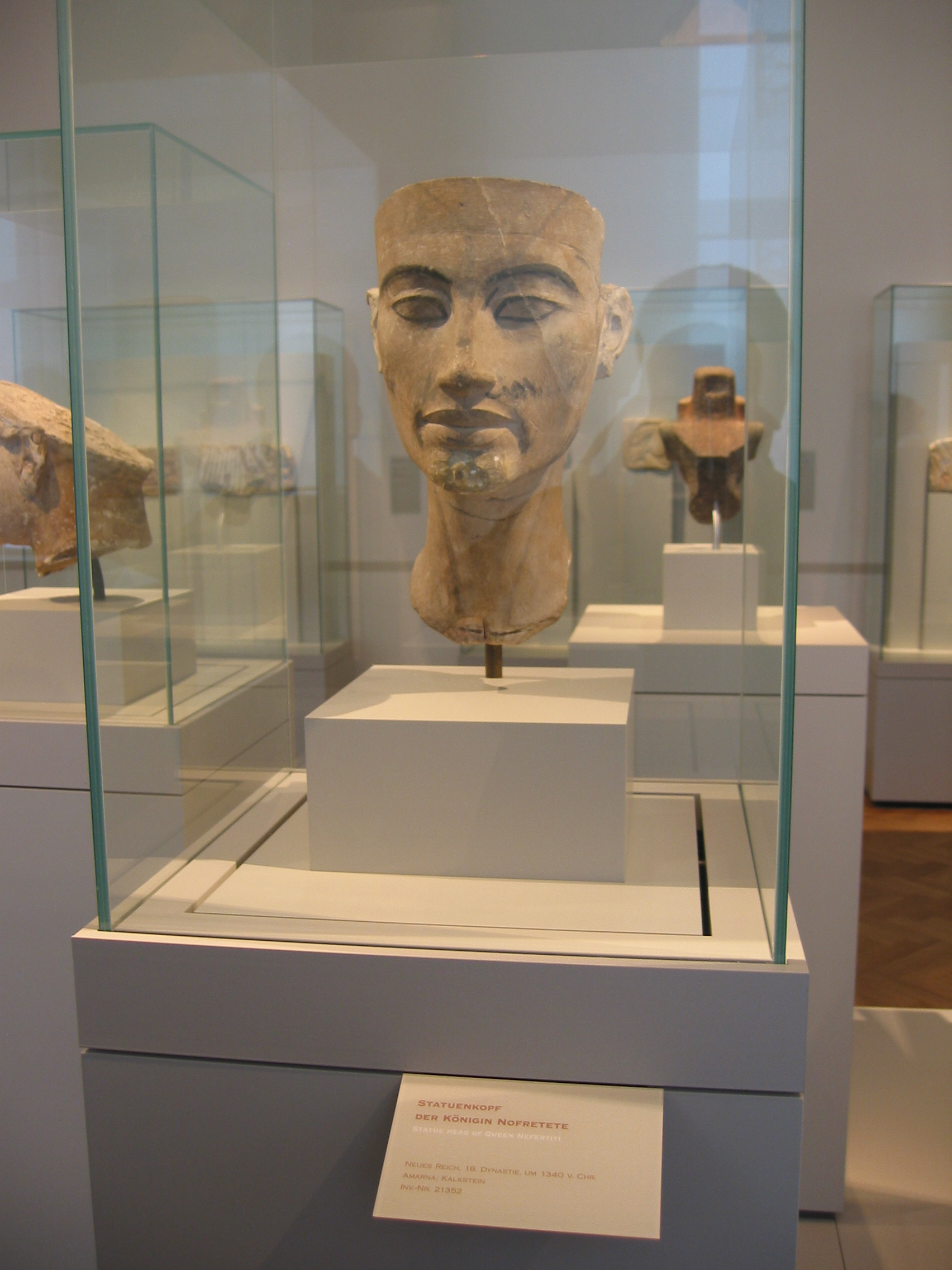 Object in the Ägyptisches Museum Berlin (Egyptian museum, building of the New Museum), Berlin.